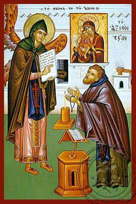 Miracle singing truly meet